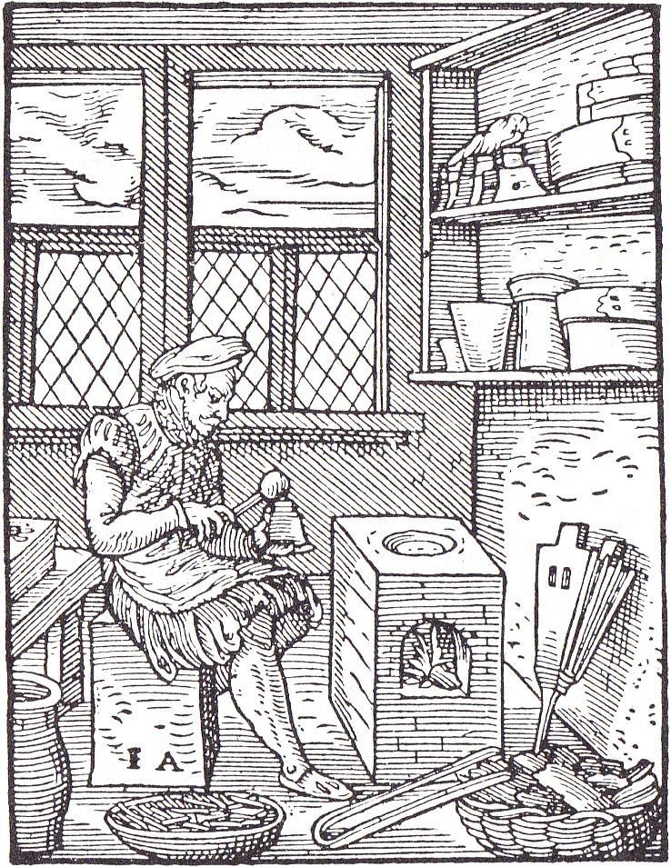 Jost Ammann casting his type